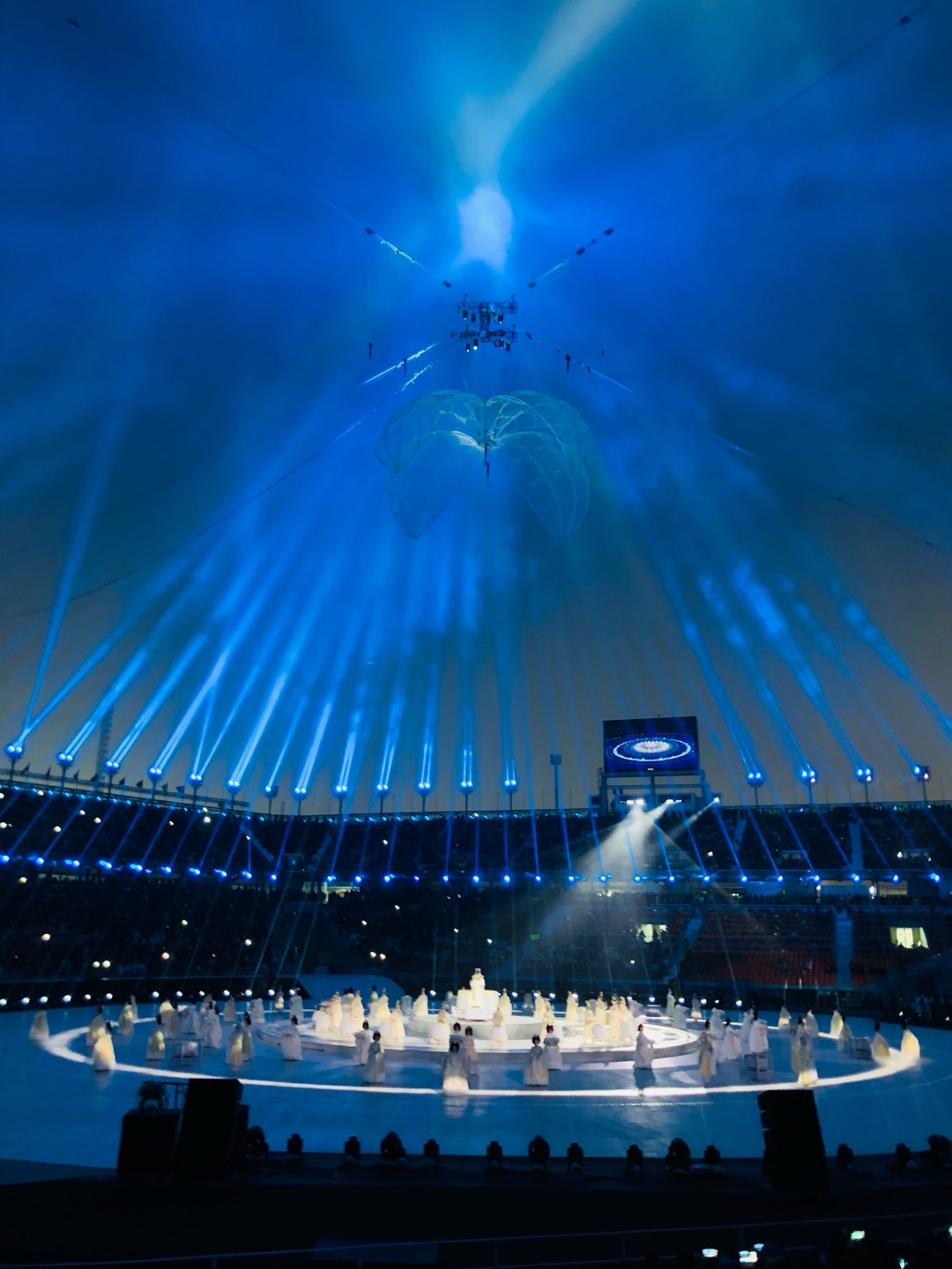 Pyeongchang Olympic Stadium where 2018 Winter Paralympics opening ceremony is held, taken in March 9, 2018.